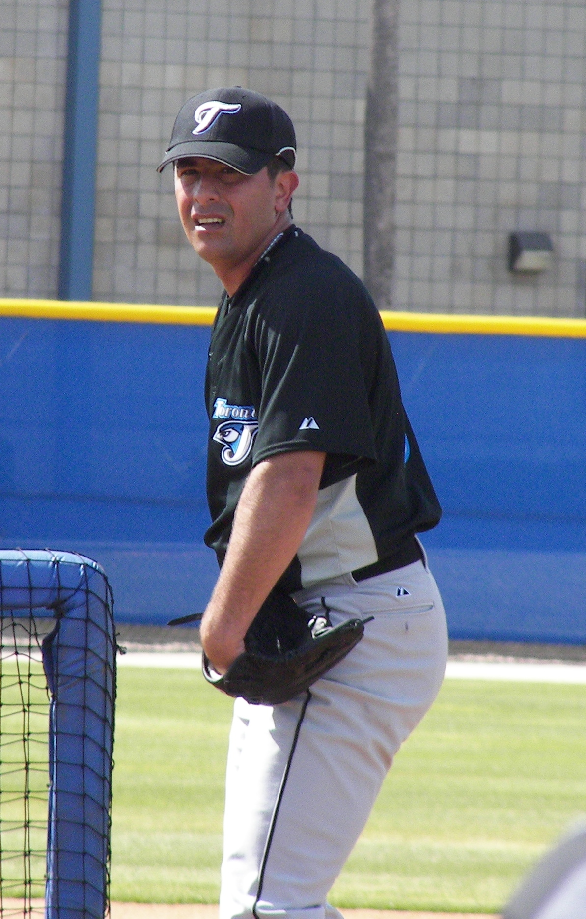 Toronto Blue Jays pitcher Víctor Zambrano during a spring training workout at the Blue Jays' spring training complex in Dunedin, Florida.